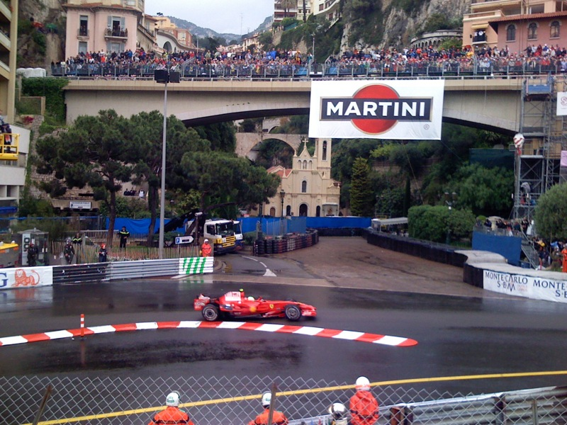 Massa, Ferrari, Monaco Grand Prix 25 May 2008